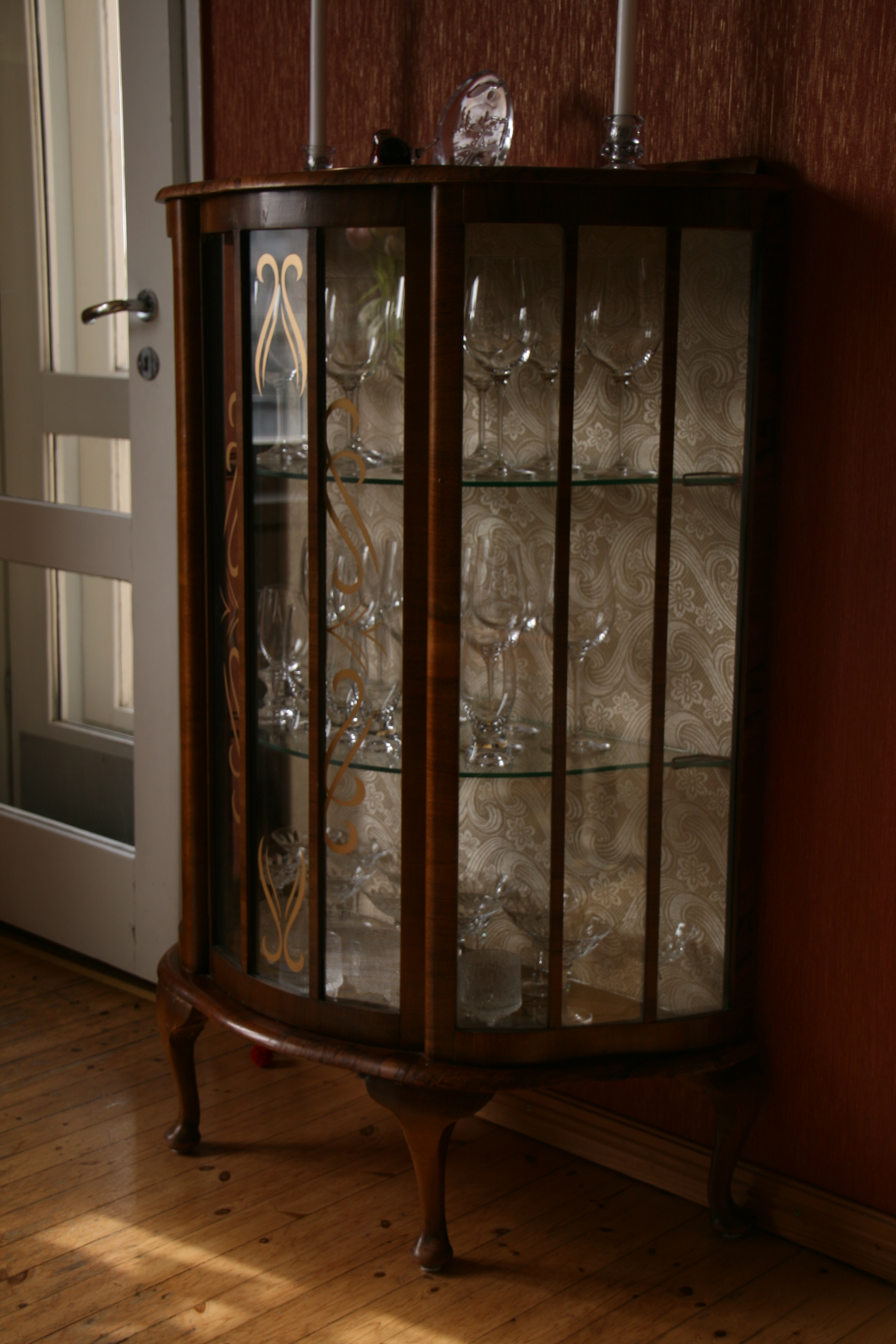 Display cabinet (UK)